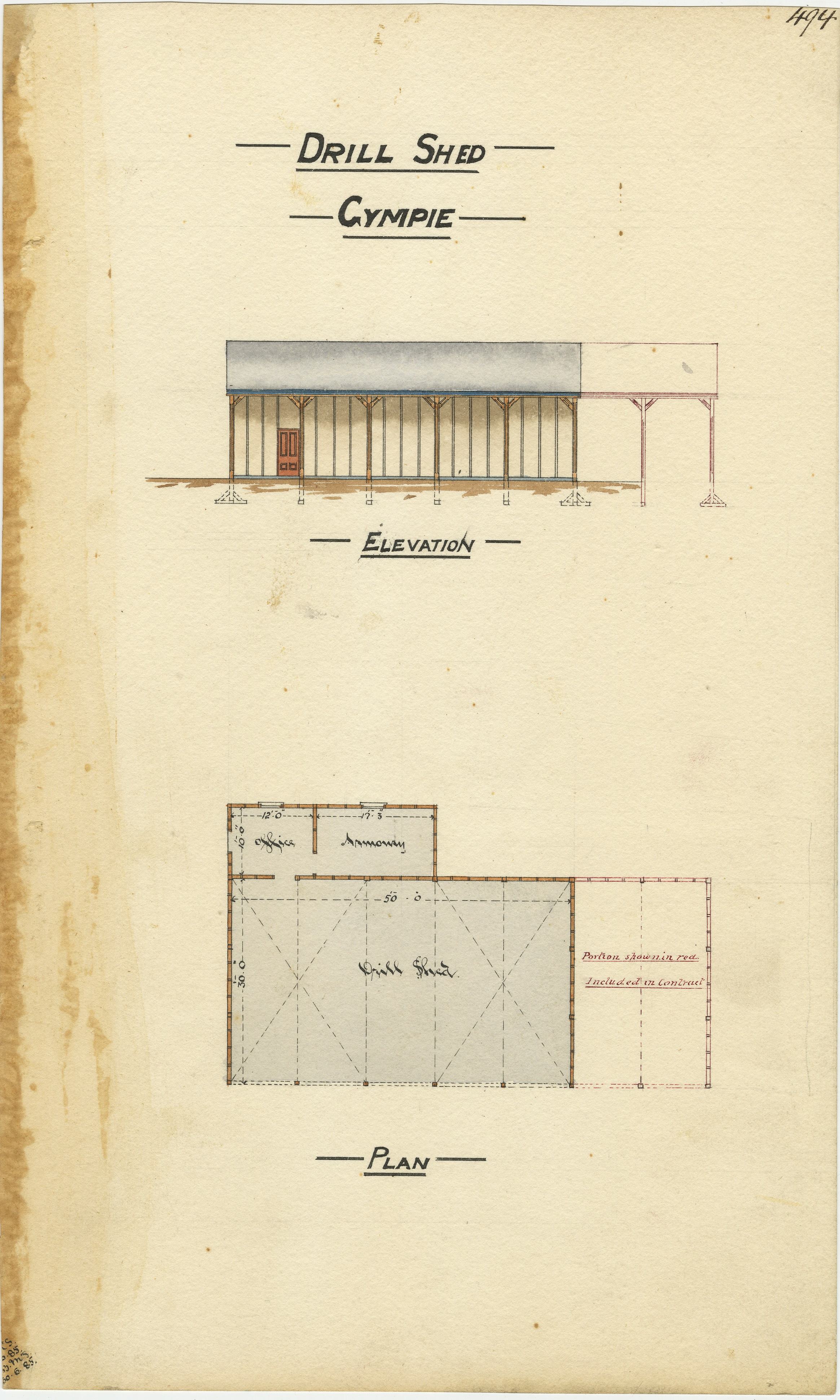 Architectural drawing of the Drill Shed, Gympie, 30 June 1885